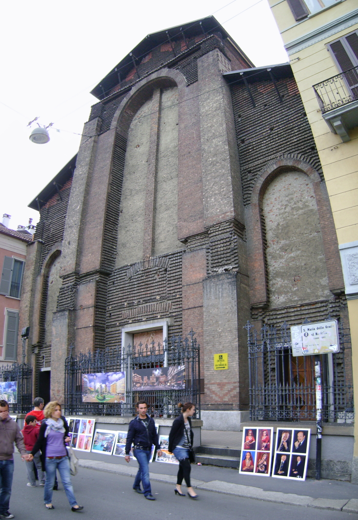 The church of Santa Maria delle Grazie al Naviglio in Milan, in Italy